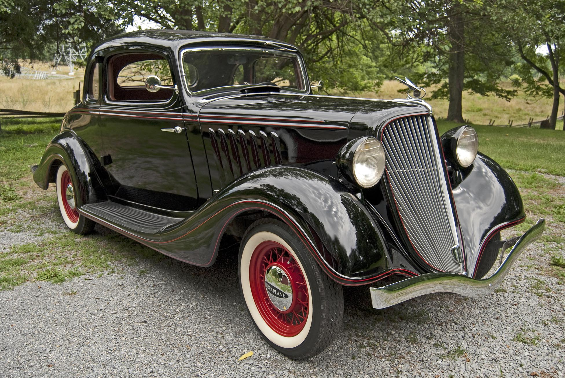 A 1934 Terraplane K-coupe taken January 2014